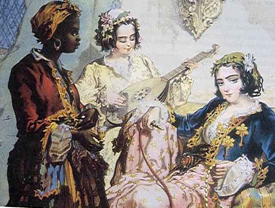 A Preziosi depiction of a Turkish harem